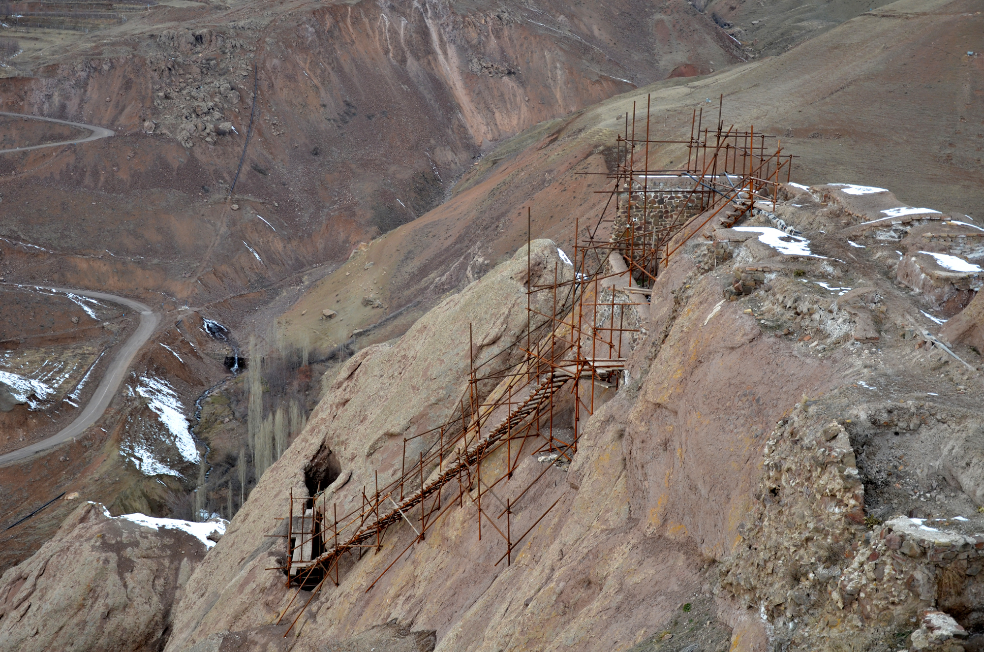 Qazvin - Alamout Castle